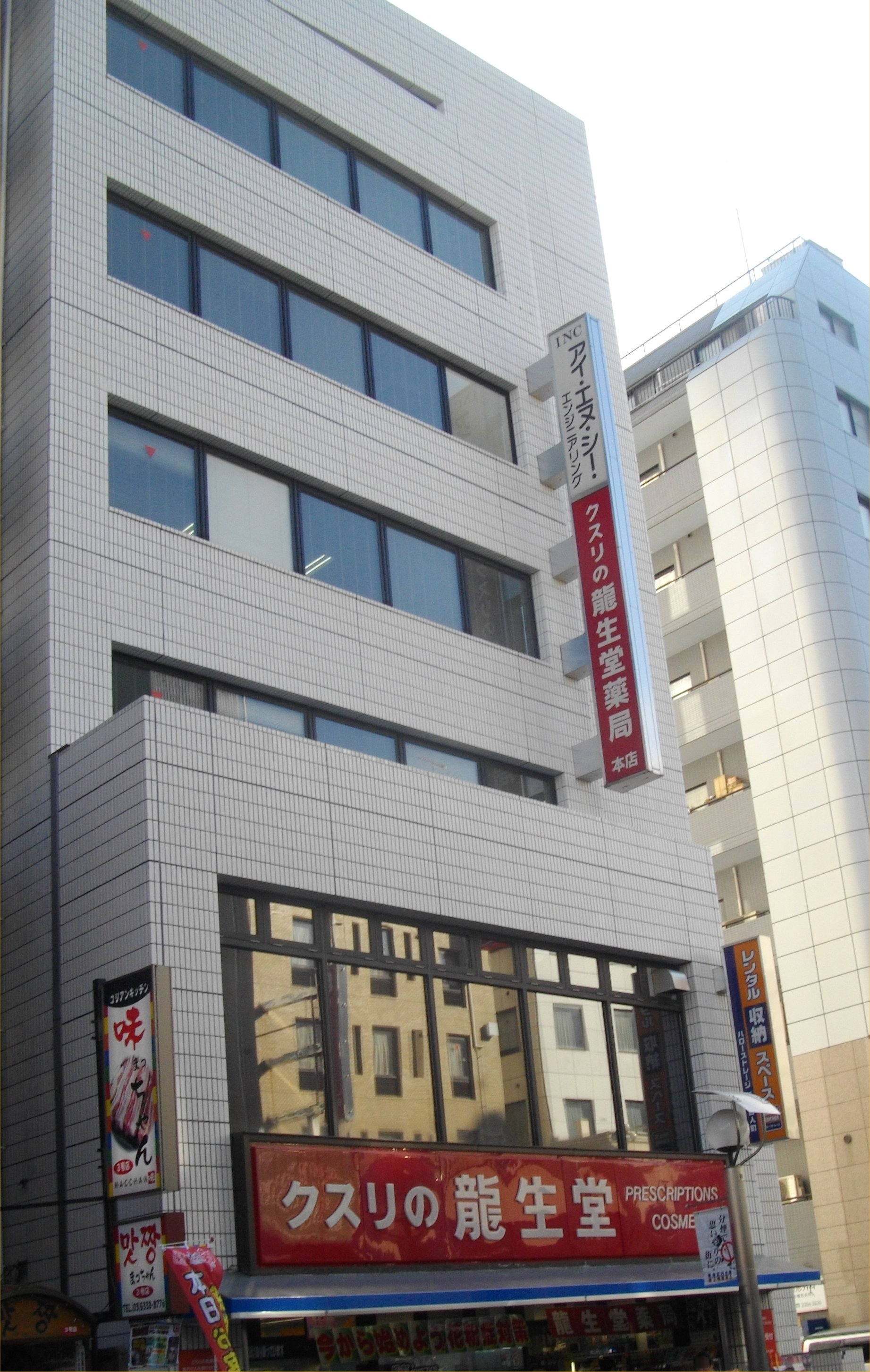 A photo of Pharmacy Ryuseido(A pharmacy in Tokyo.) head store(Okubo store),Hyakunin-cho,Shinjuku-ku,Tokyo,Japan.